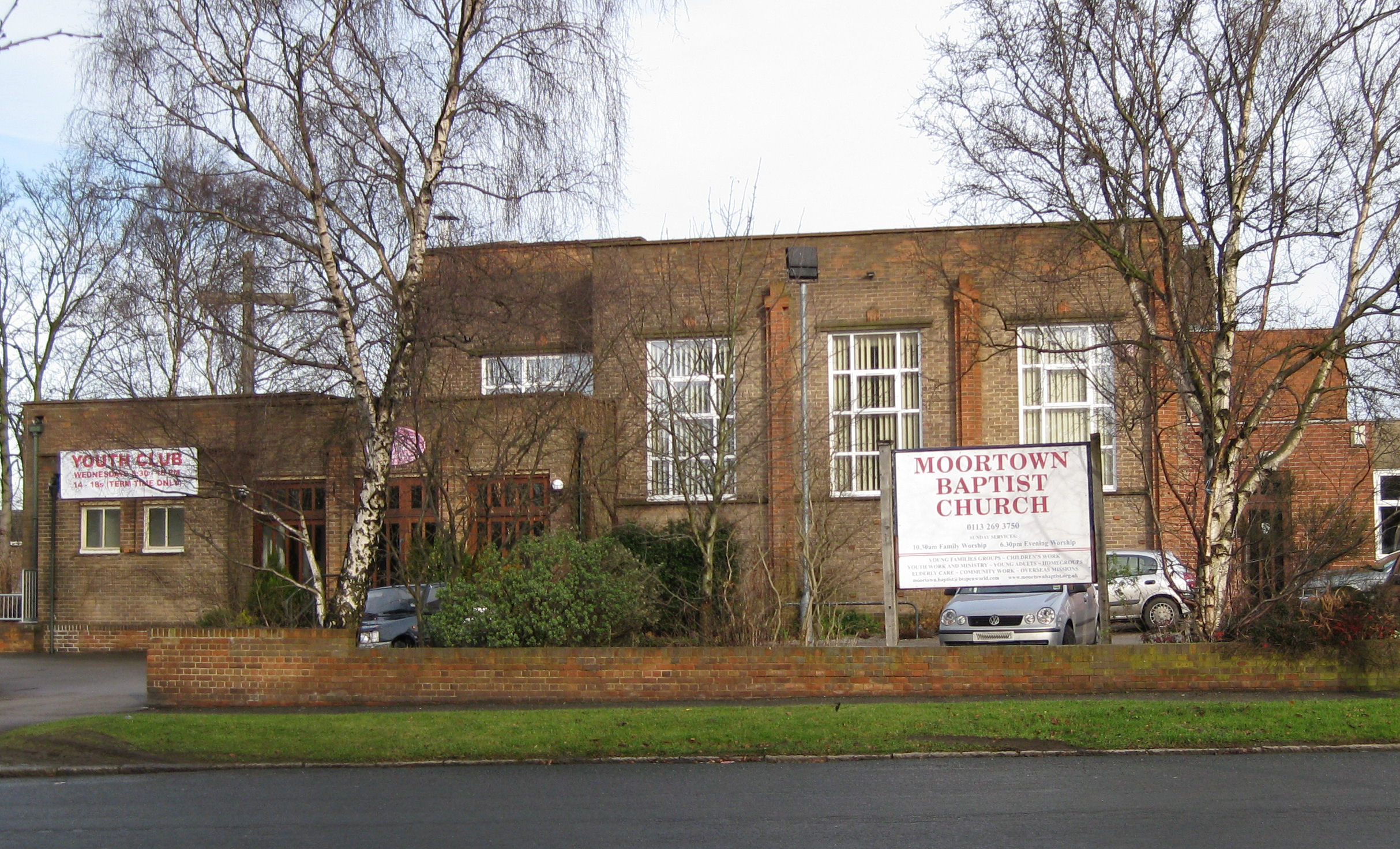 Moortown Baptist Church, King Lane, Leeds LS17 6AA